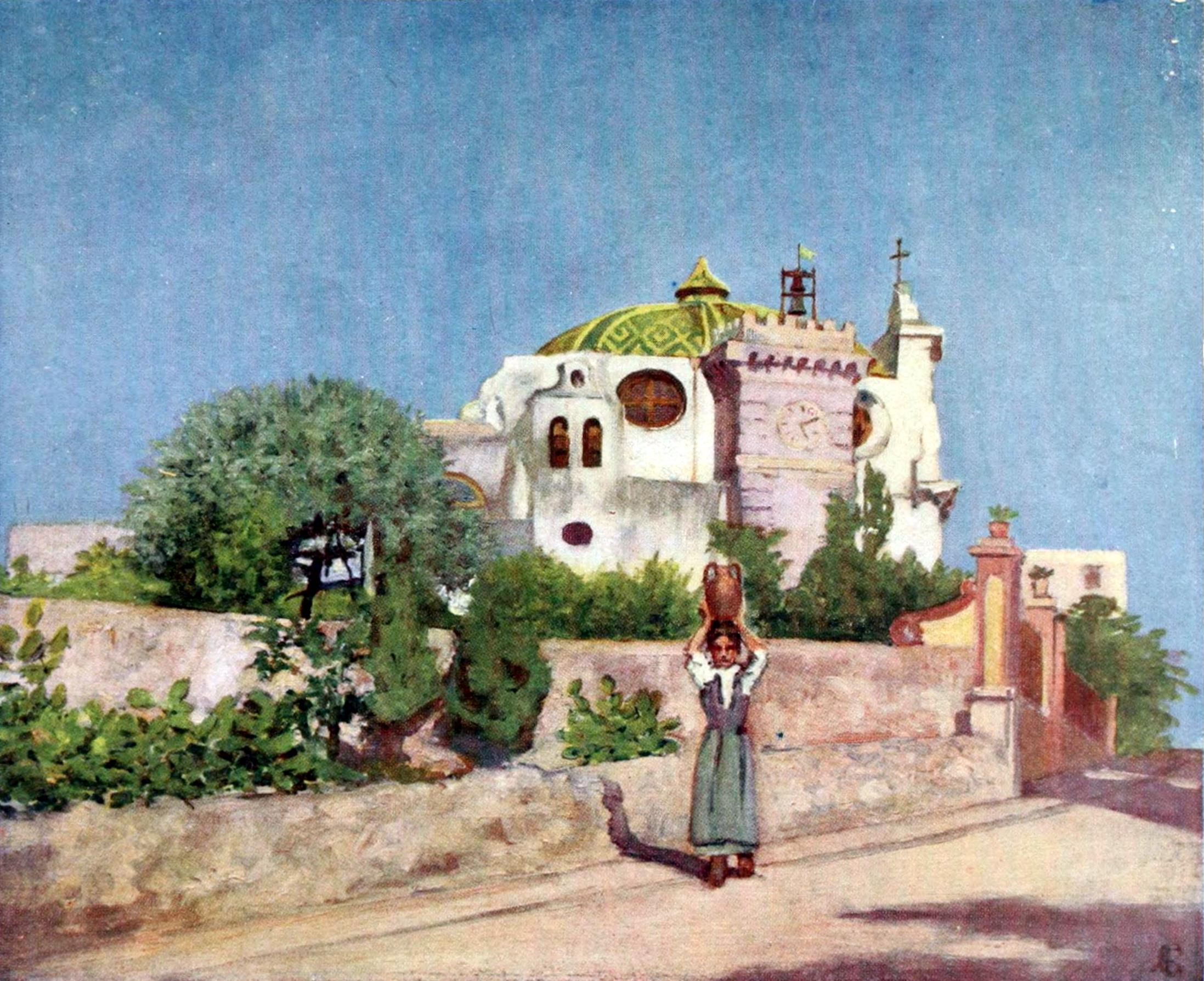 Church of Saint Peter in Ischia